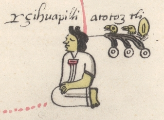 Fragment from Généalogie des seigneurs de Tenochtitlan or Fragmento de genealogía de los príncipes mexicanos showing "Lady Atotoztli" (subtitled Çihuapilli Atotoztli in Latin alphabet). The work is a 16th-17th century painted manuscript consisting of a single sheet in-folio, with depictions of Itzcohuatzin and Motecuhzoma Ilhuicamina, and their descendants. Possibly a copy of an earlier 16th century work, it was annotated in Spanish in 18th century.